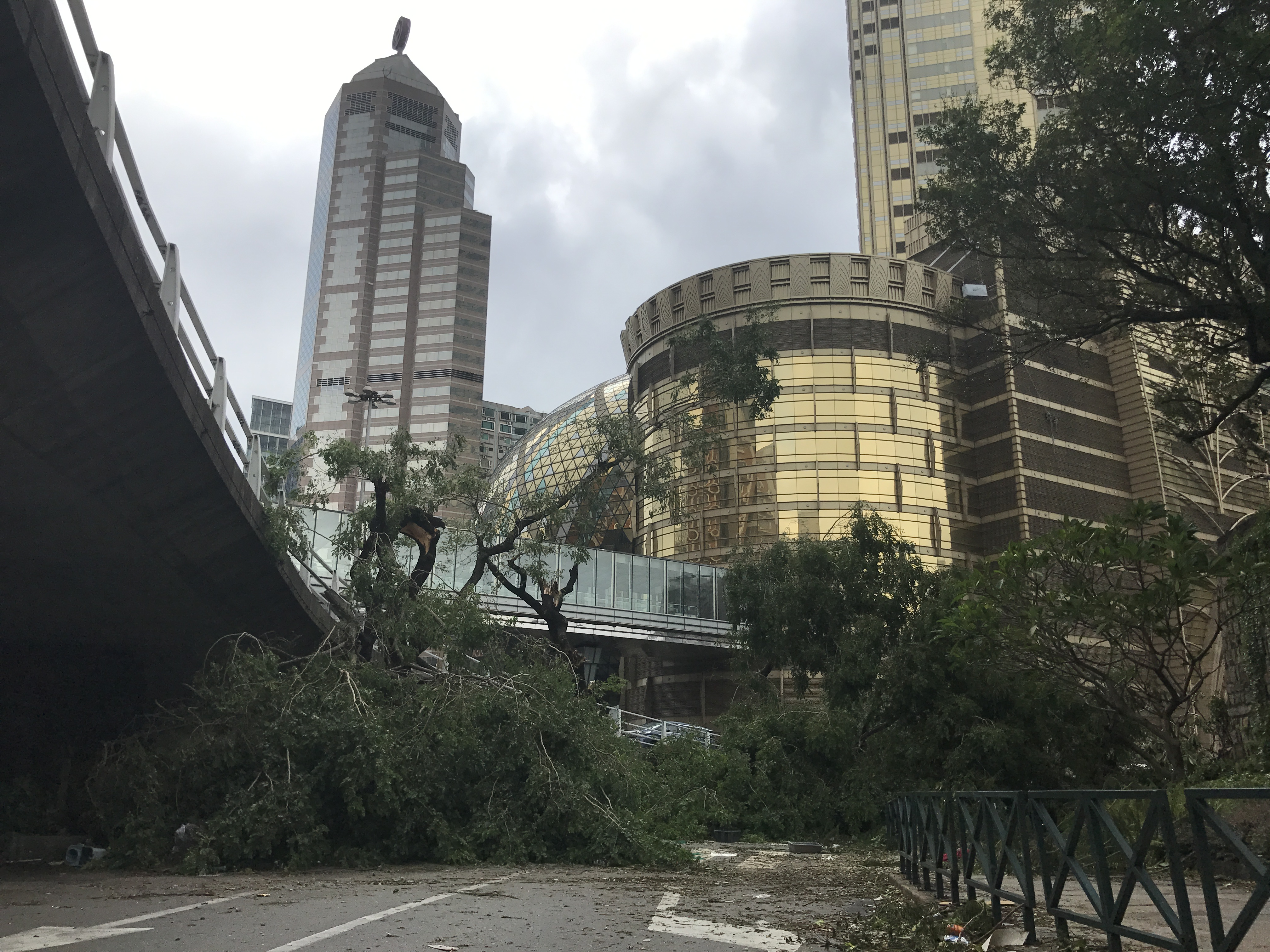 中文（台灣）: 澳門颱風天鴿災後 Typhoon Hato's Destruction in Macao